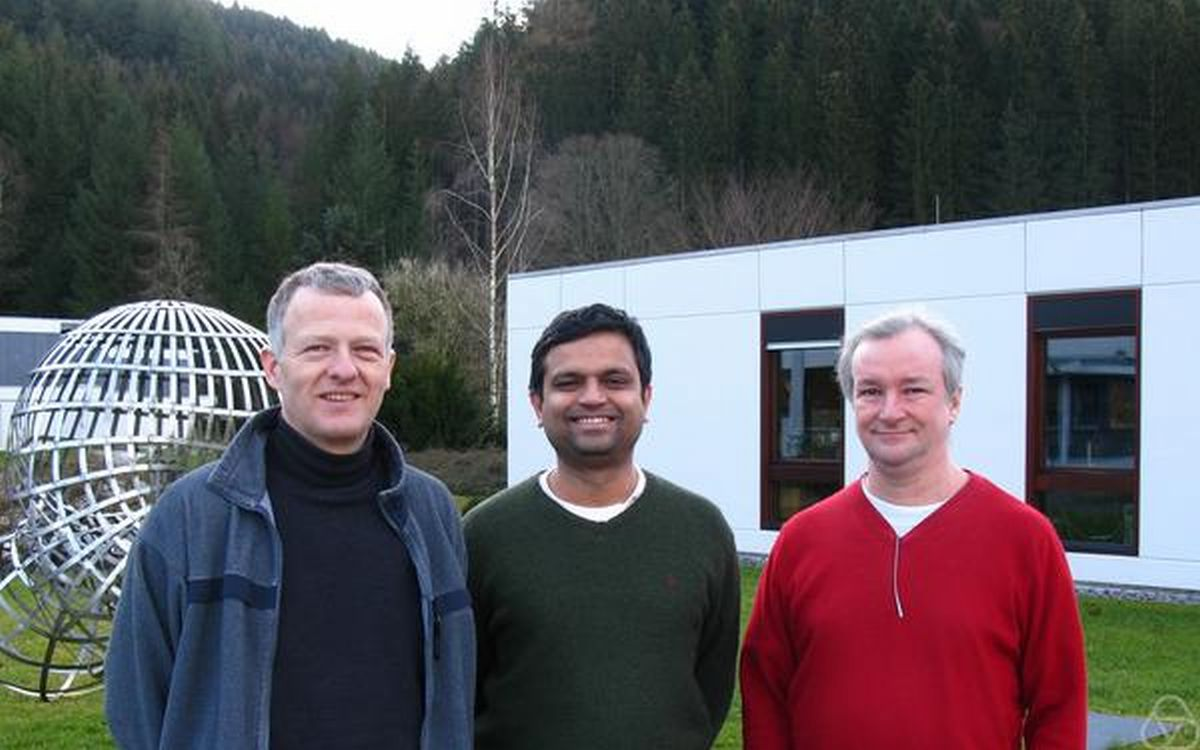 Henning Krause (left), Srikanth B. Iyengar (middle), David J. Benson (right), Oberwolfach 2012